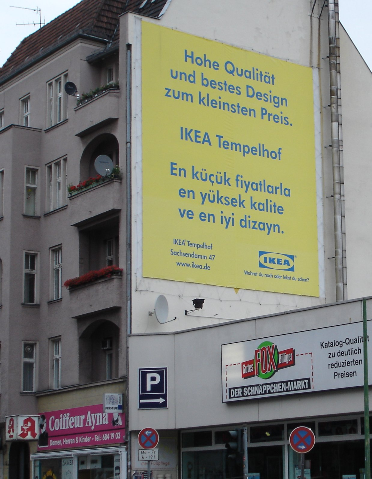 German and Turkish advertisement for a new IKEA branch in Berlin. Photo taken at Neukölln Subway Station